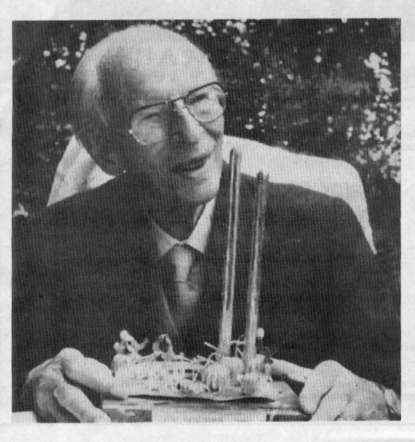 Walther Haage with Cactus d'Or - Golden Cactus in 1990